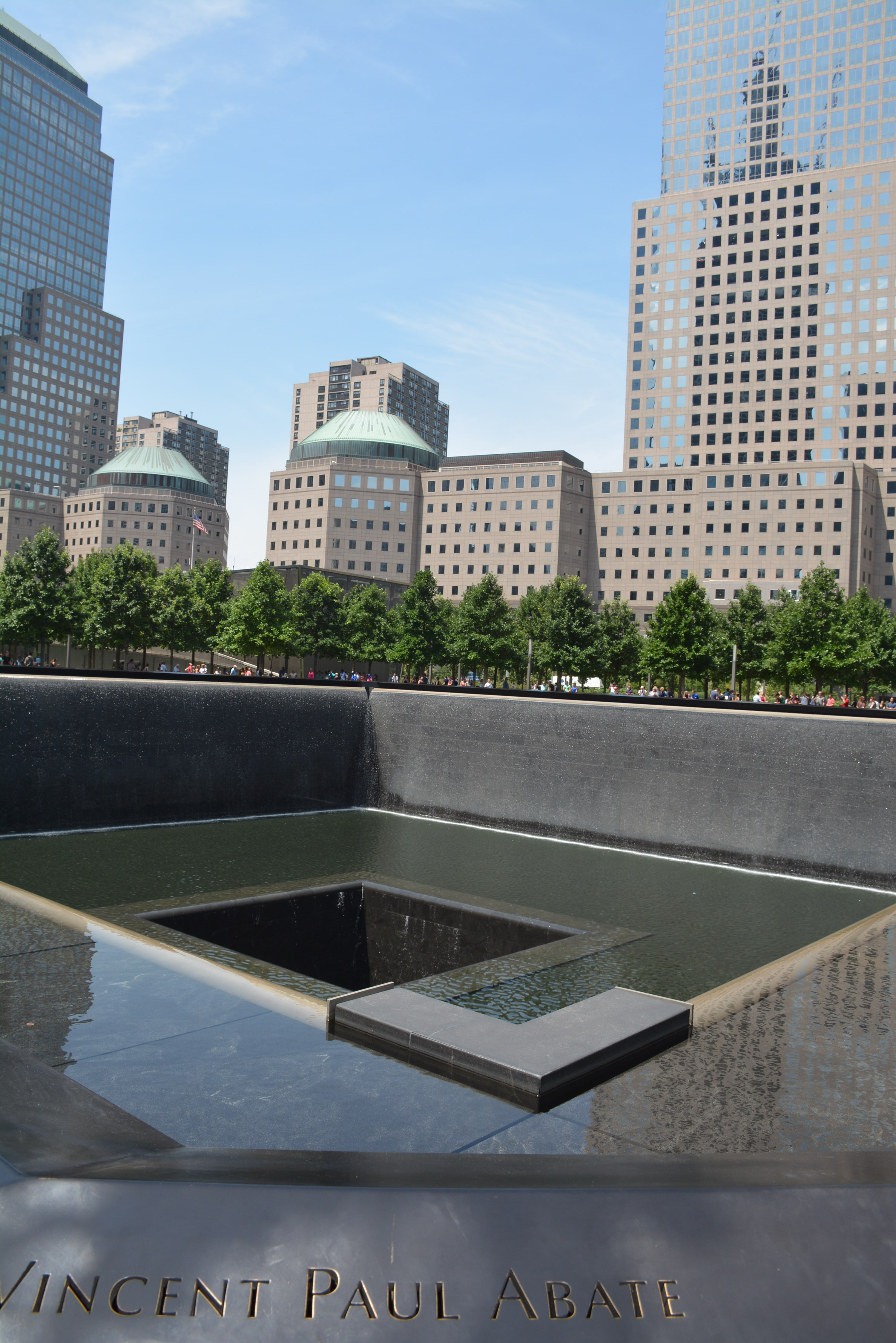 September 11 attacks